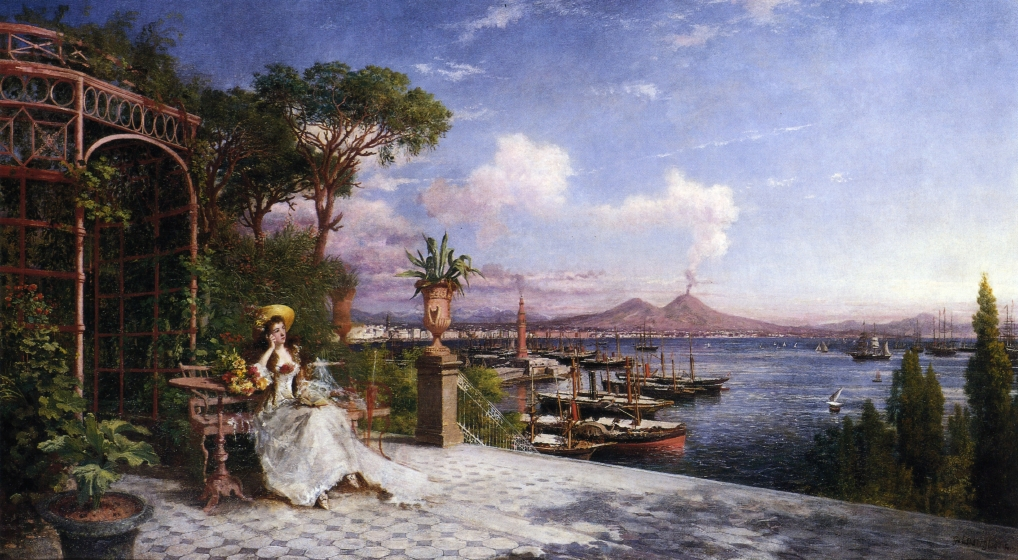 Lost in Reverie by The Bay of Naples by Giuseppe Castiglione. Oil on canvas, 90.2 cm (35.51 in.) x 162.6 cm (64.02 in.) Retrieved from 28 February 2008.